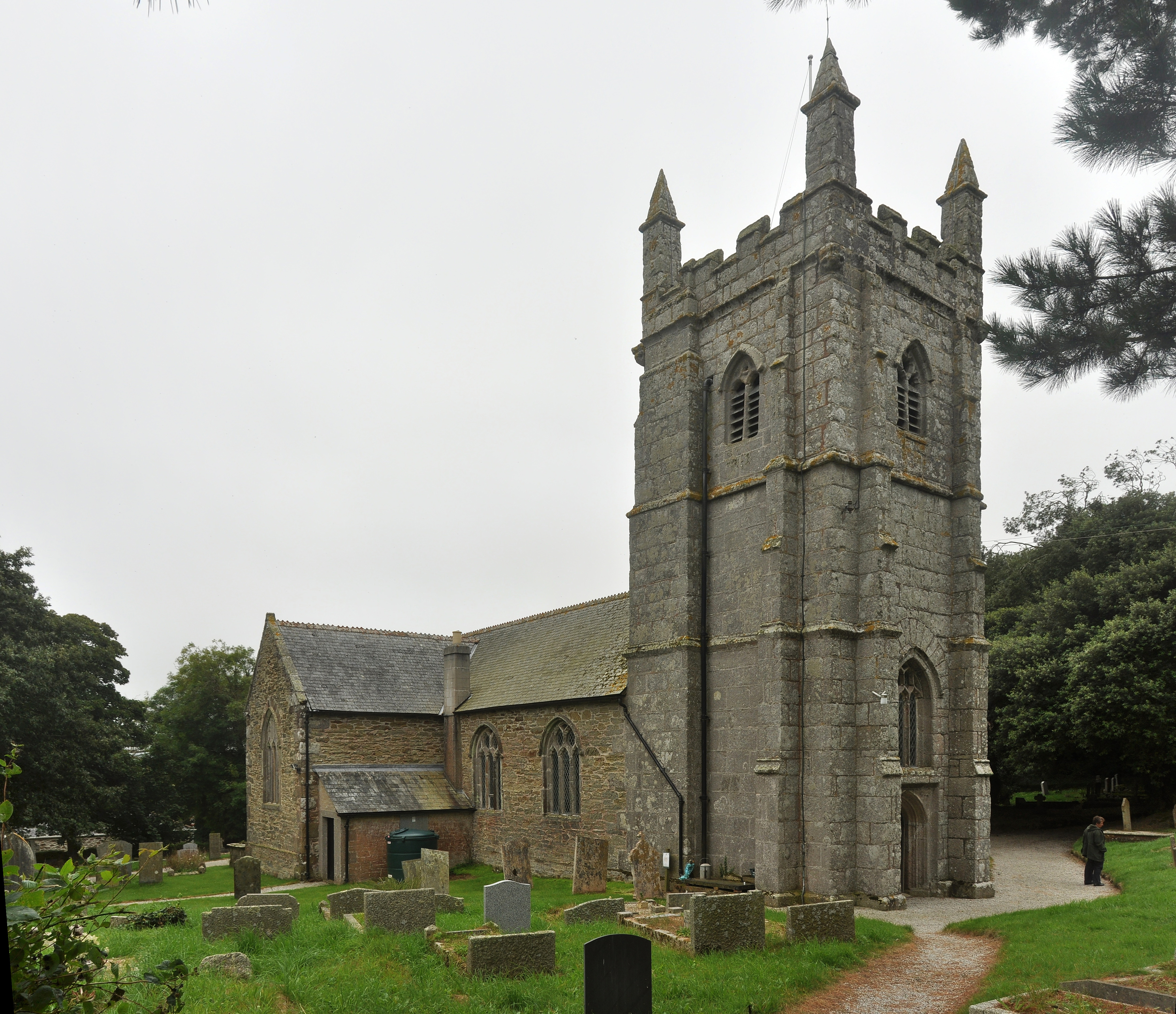 Perranzabuloe church, near Perranporth, Cornwall.